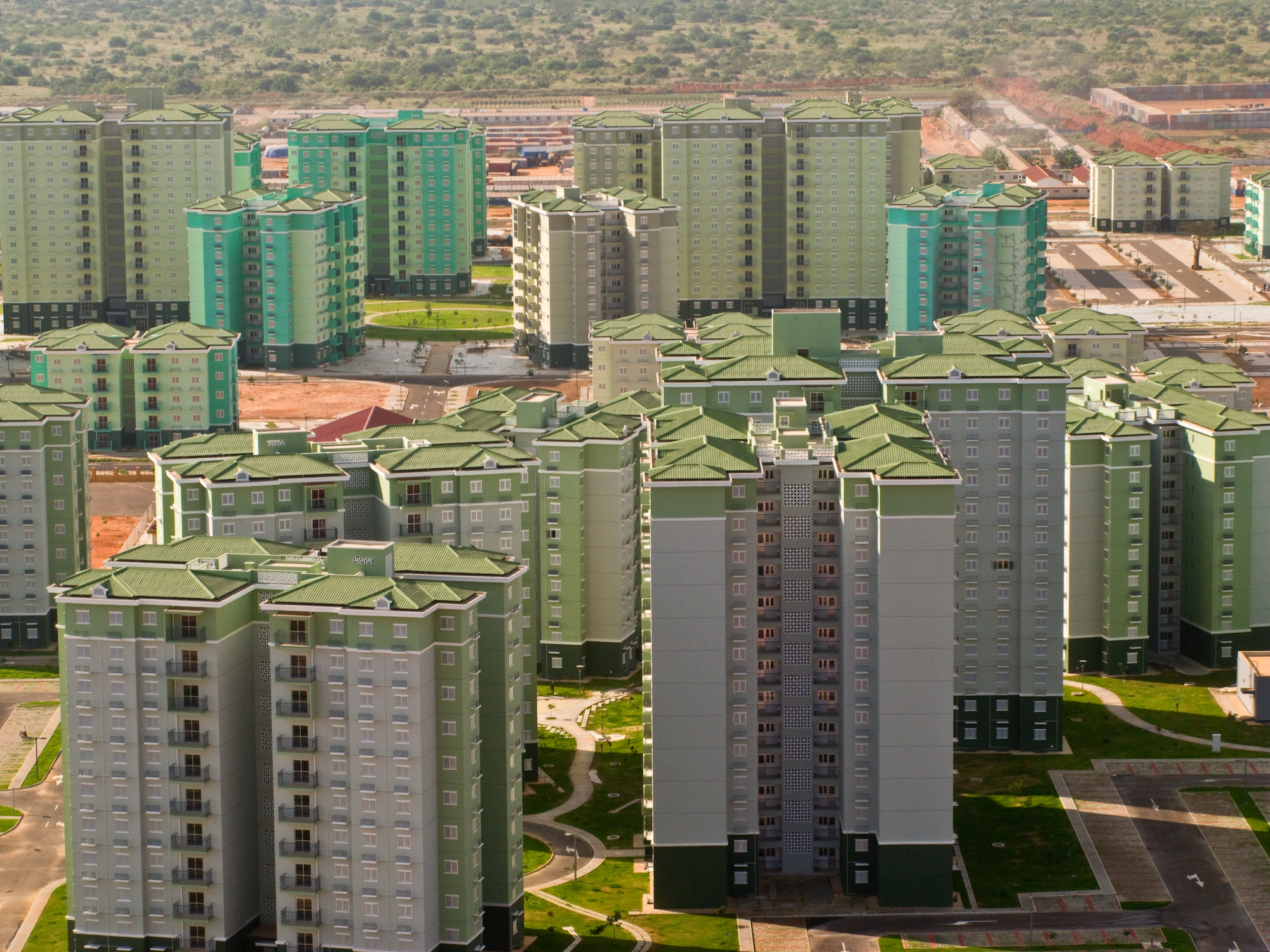 The new city of Kilamba in Luanda Province